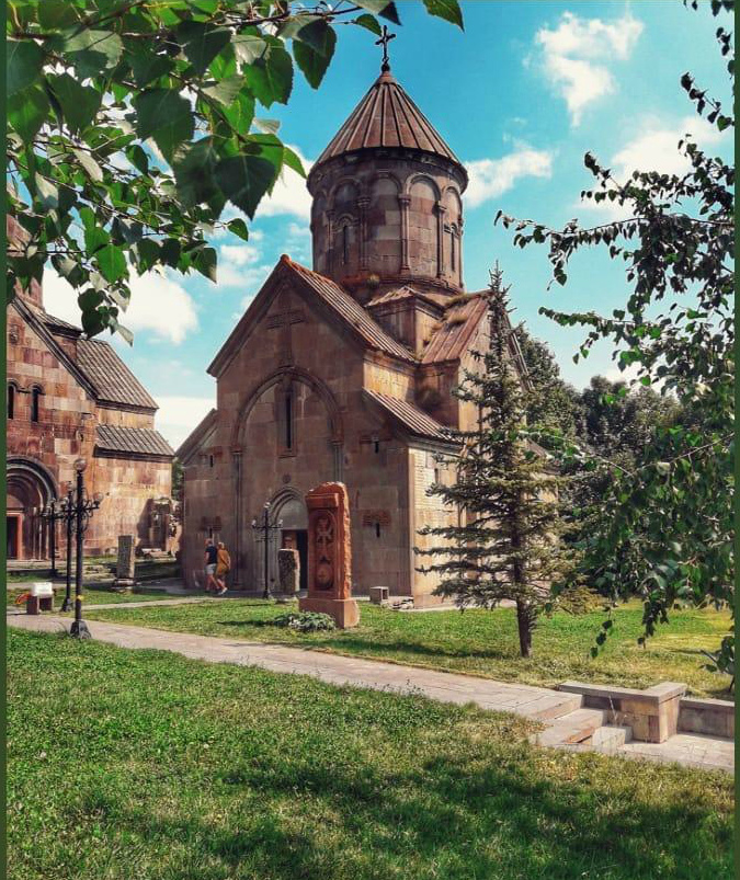 Kecharis is a medieval Armenian monastic complex dating back to the 11th to 13th centuries, located 60 km from Yerevan, in the ski resort town of Tsakhkadzor in Armenia. Nestled in the Pambak mountains, Kecharis was founded by a Pahlavuni prince in the 11th century, and construction continued until the middle of the 13th century. In the 12th and 13th centuries, Kecharis was a major religious center of Armenia and a place of higher education. Today, the monastery has been fully restored and is clearly visible from the ski slopes.